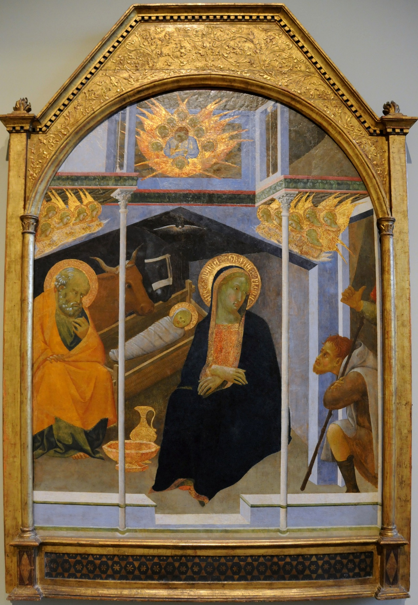 Bartolomeo_Bulgarini._The_Adoration_of_the_Shepherds._172.4_x_123.2_cm._c.1350._Fogg_Art_Museum,_Harvard.